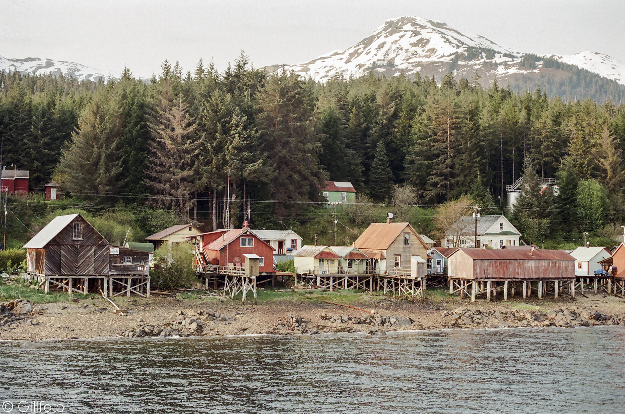 Tenakee Springs, Southeast Alaska (circa 1997)